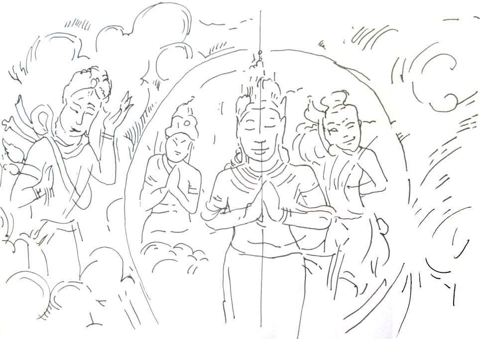 Drawing of an ancient painting found from the relic chamber of a stupa in Mihintale, Sri Lanka. Belongs to later Anuradhapura era. Depicts deities.